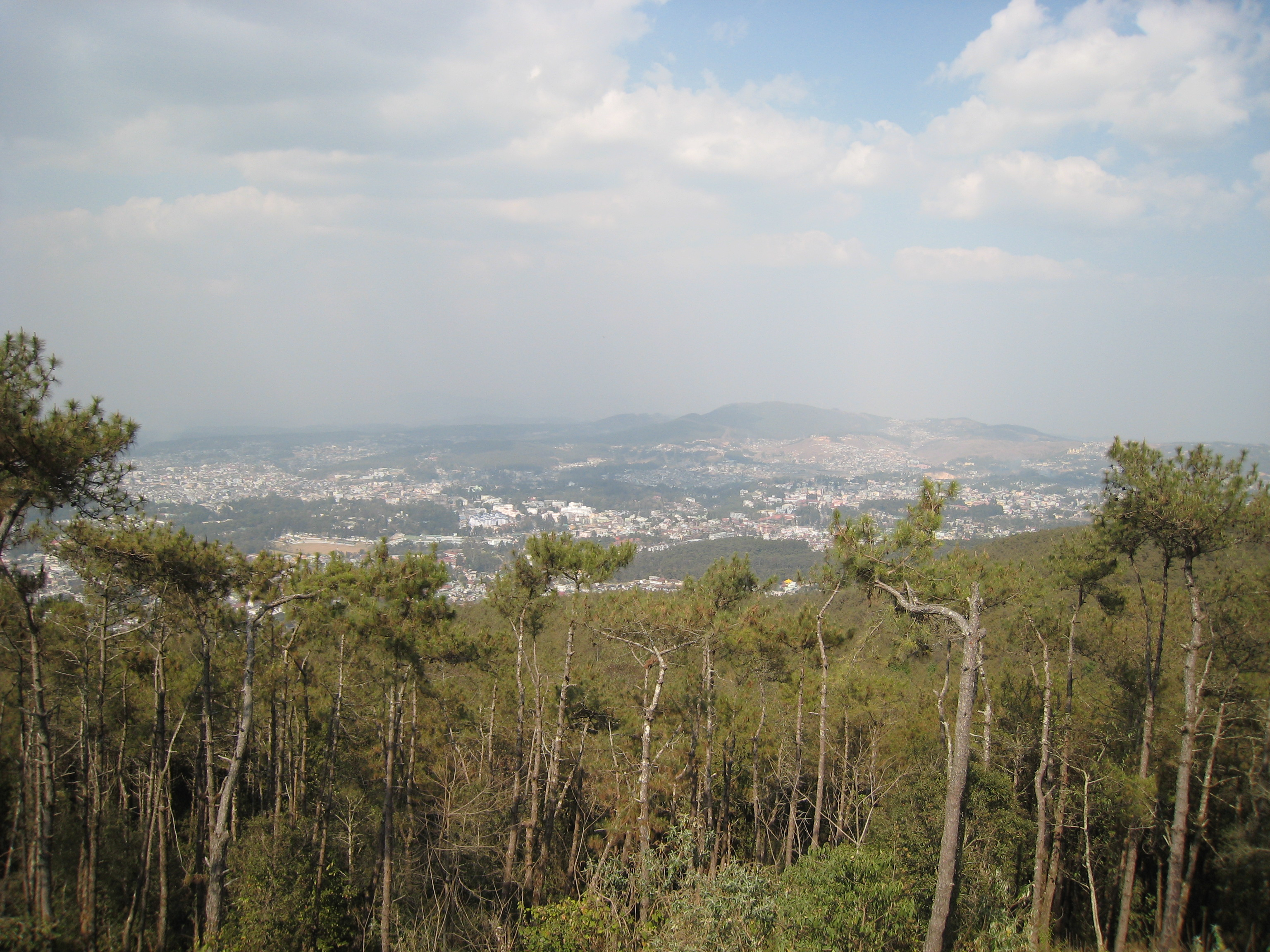 View of Shillong (Meghalaya, India) from Shillong Peak